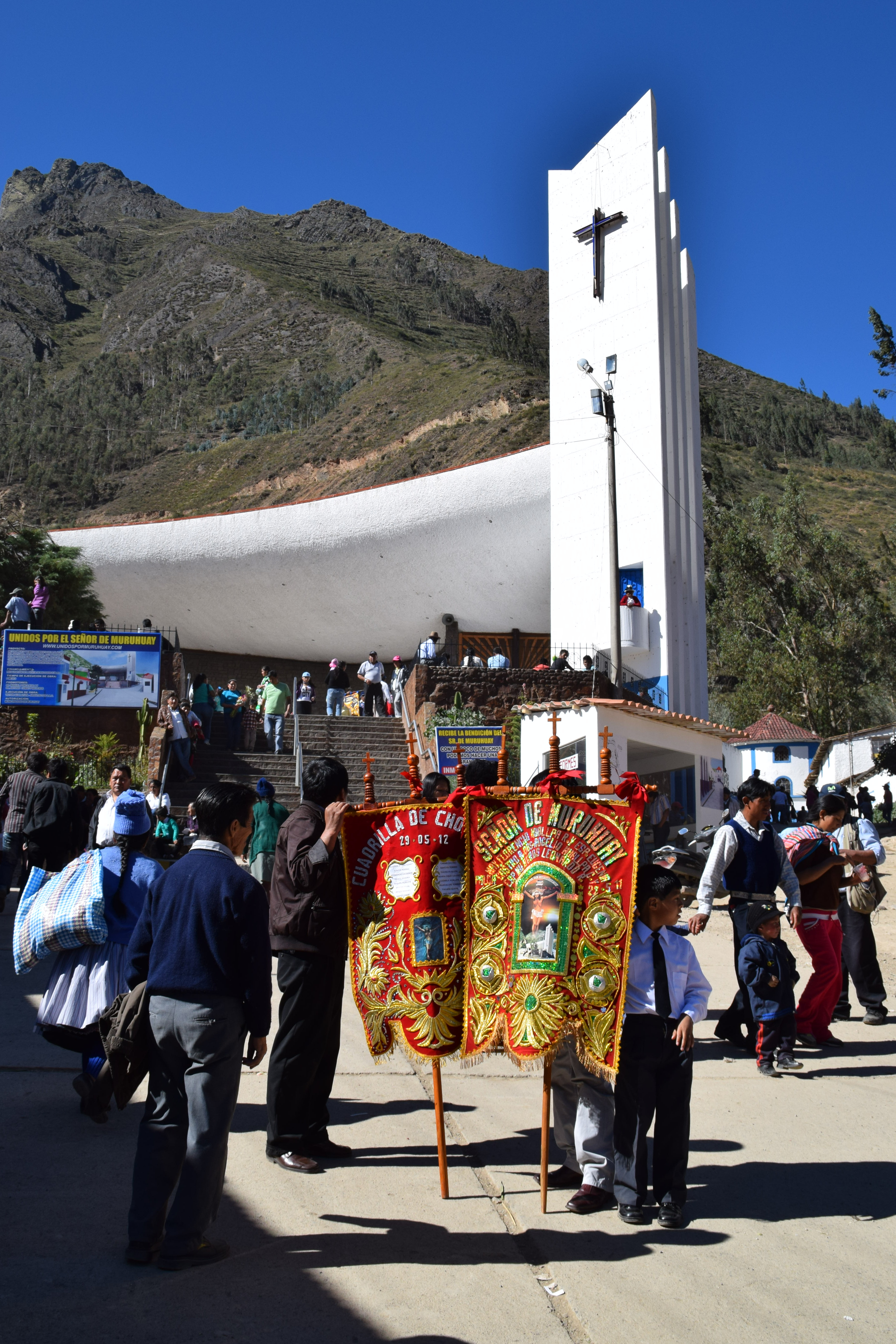 Procession, Muruhuay, Peru